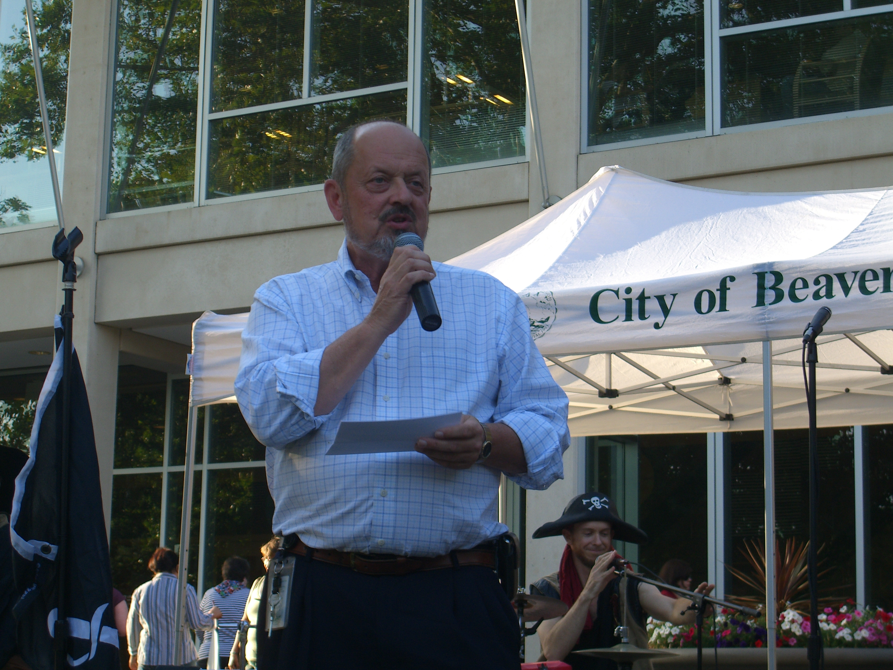 Beaverton mayor Dennis Doyle, photographed 8/05/09 at Beaverton City Library. In the background is Captain Bogg and Salty drummer Dave Owen.